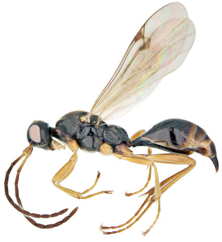 Codrus picicornis (Foerster, 1856) female